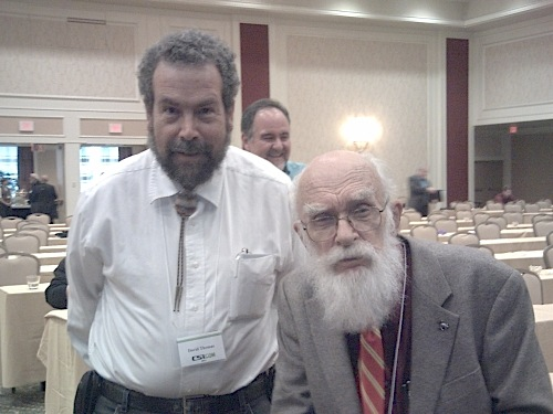 David E. Thomas and James Randi at the CSICON conference in New Orleans, October 2011